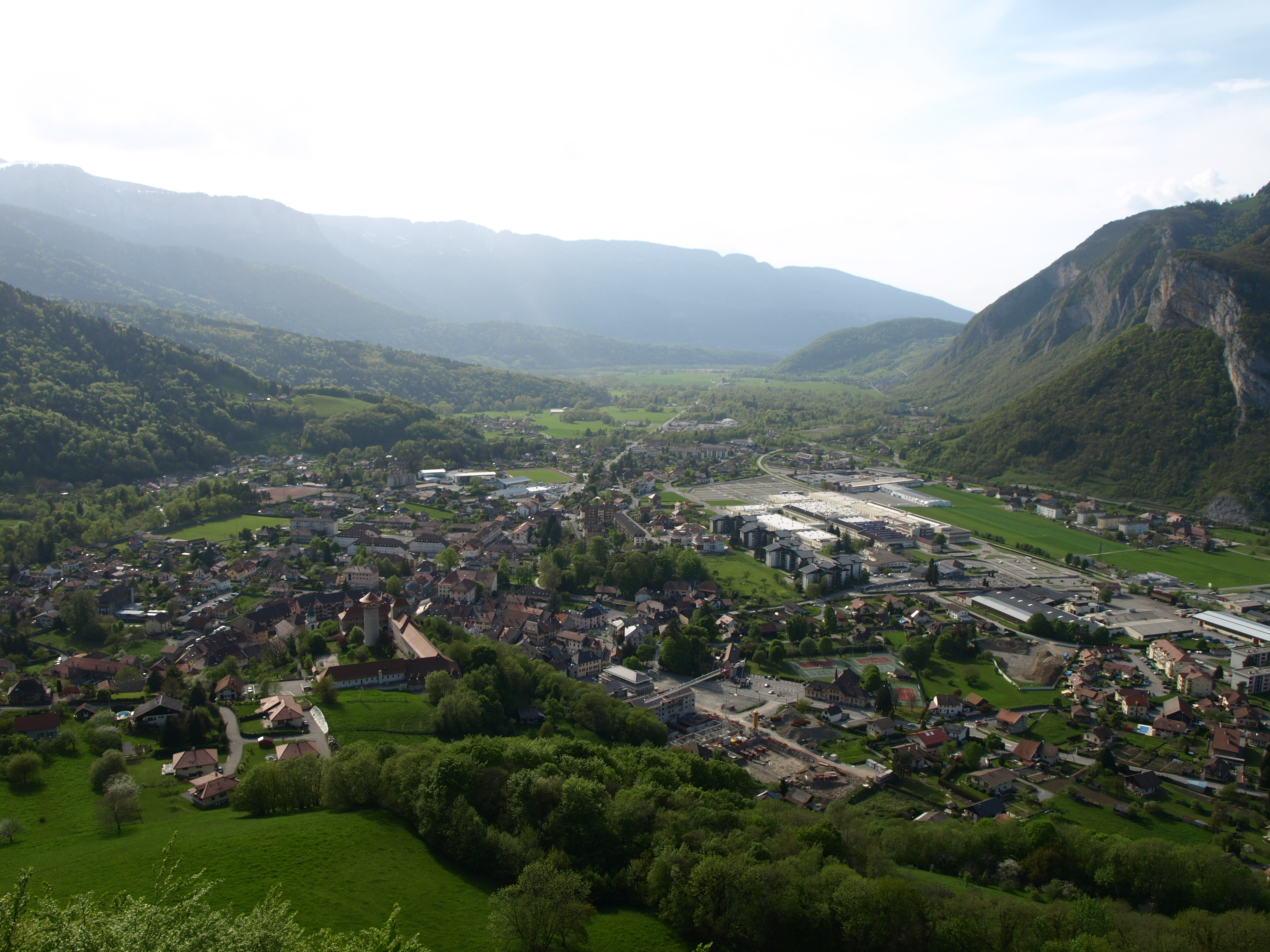 The city de Faverges, in Haute-Savoie, France, seen from the Crêt de Chambellon.